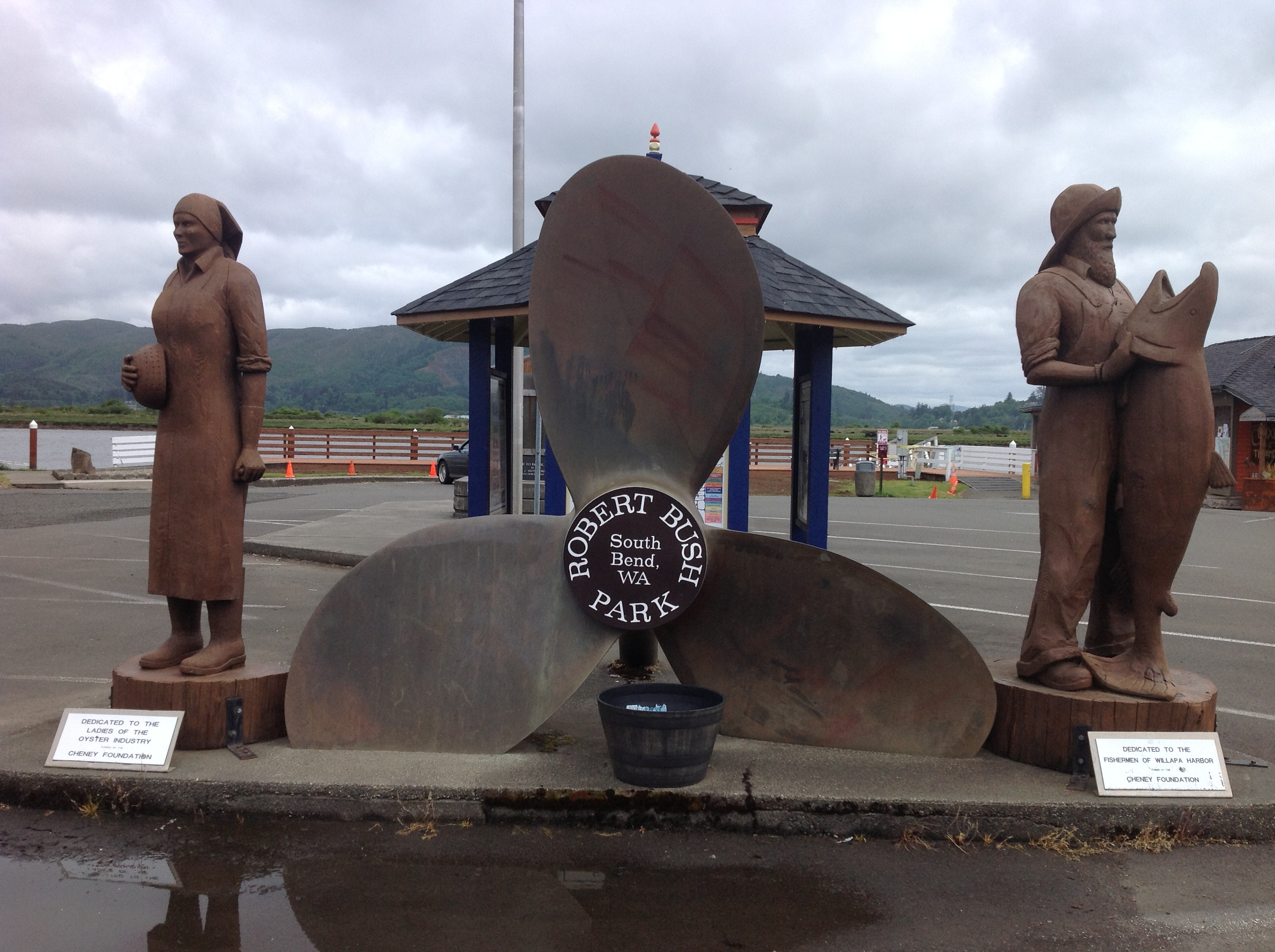 South Bend monument for the oyster and fishing industry